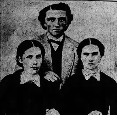 MR. AND MRS. BLANKENBURG FIFTY YEARS AGO. From a picture taken just before their marriage. Mrs. Blankenburg, who was then Miss Lucretia Longshore, is shown at the left of her aunt, Mrs. Julia A. Myers.